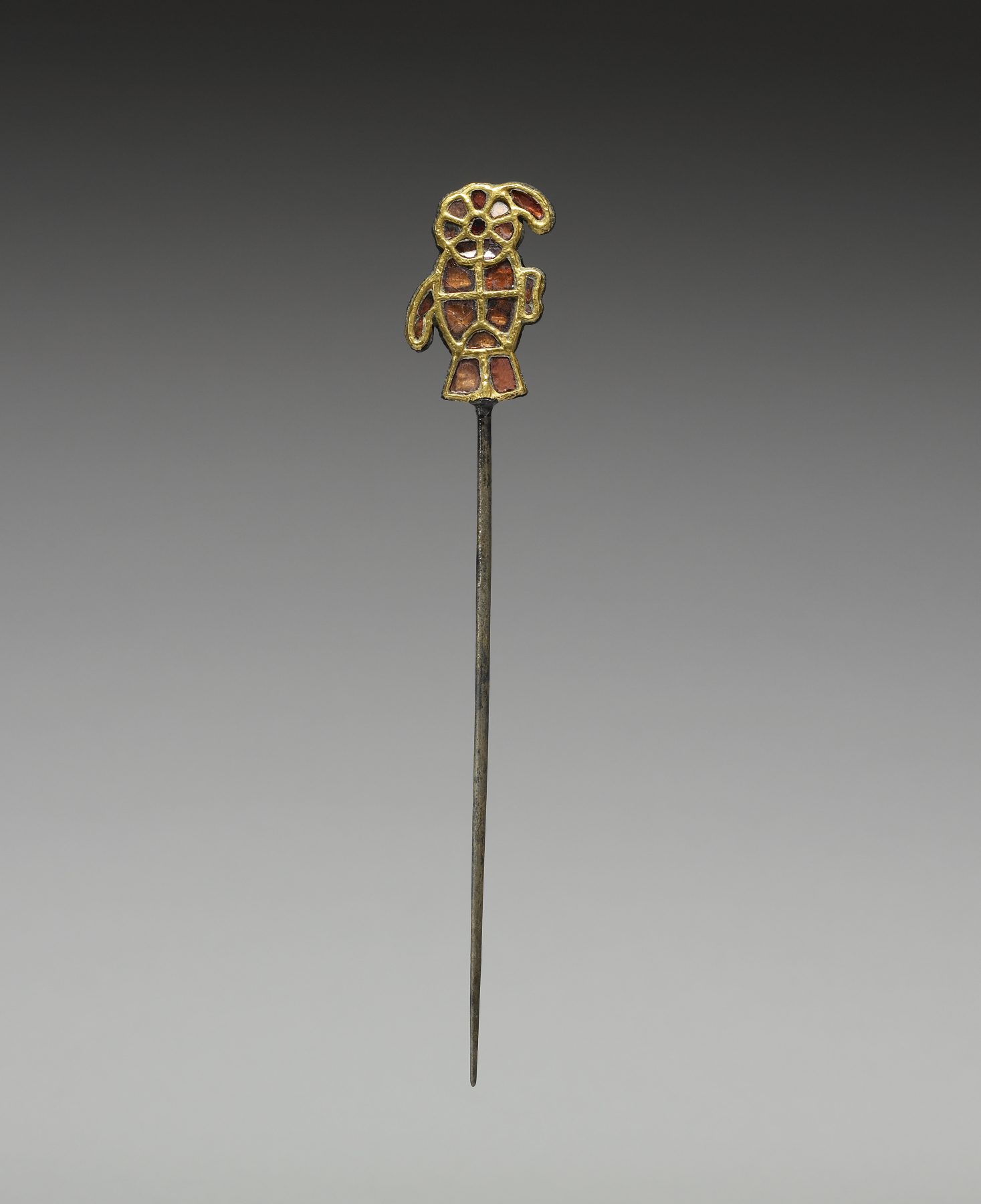 This long pin terminates in a stylized bird. Such cloisonné bird pins were developed in southern Russia about AD 400 and were carried westward with the migrating peoples. They are found most often in northeastern France and the Rhineland, where they were popular until the second half of the 6th century.